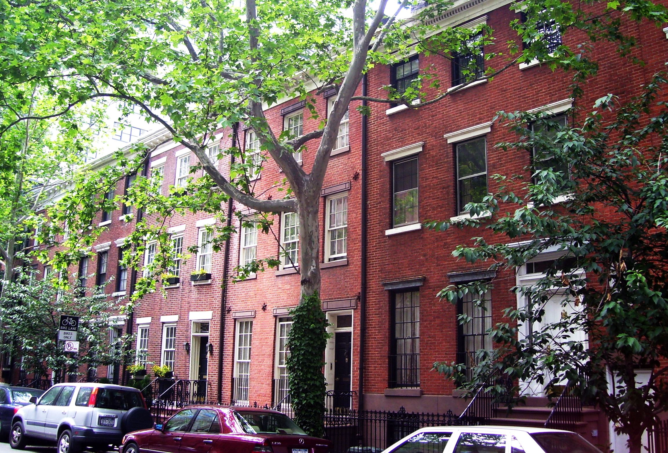 15 (right) through 23 (left) Charlton Street between Sixth Avenue and Varick Street in the South Village section of the Greenwich Village neigborhood of Manhattan, New York City, were built c.1820 in the Federal style. They are located within the Charlton - King - Vandam Historic District. (Source: "NYCLPC Charlton - King - Vandam Designation Report")